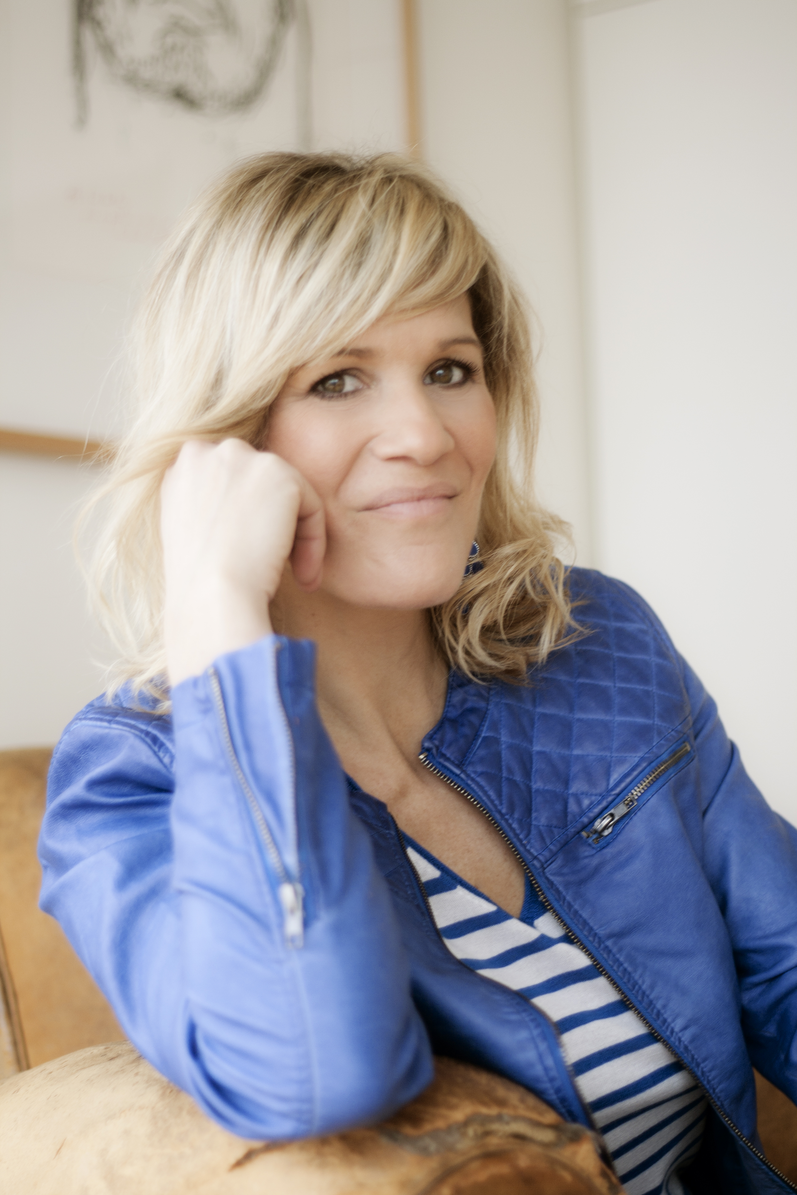 Lilou Mace by Ian Mind